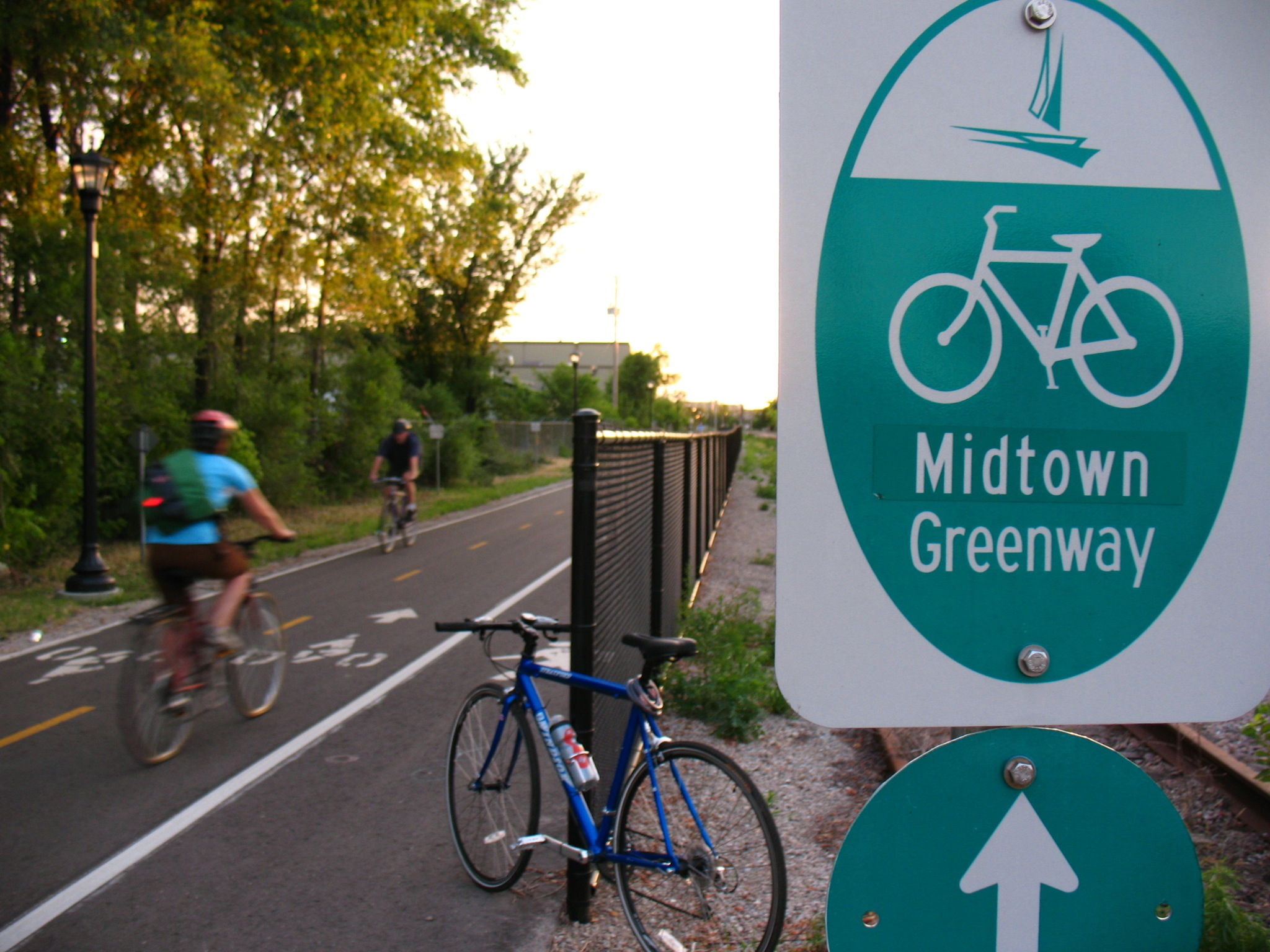 The Midtown Greenway bicycle trail, in Minneapolis, Minnesota